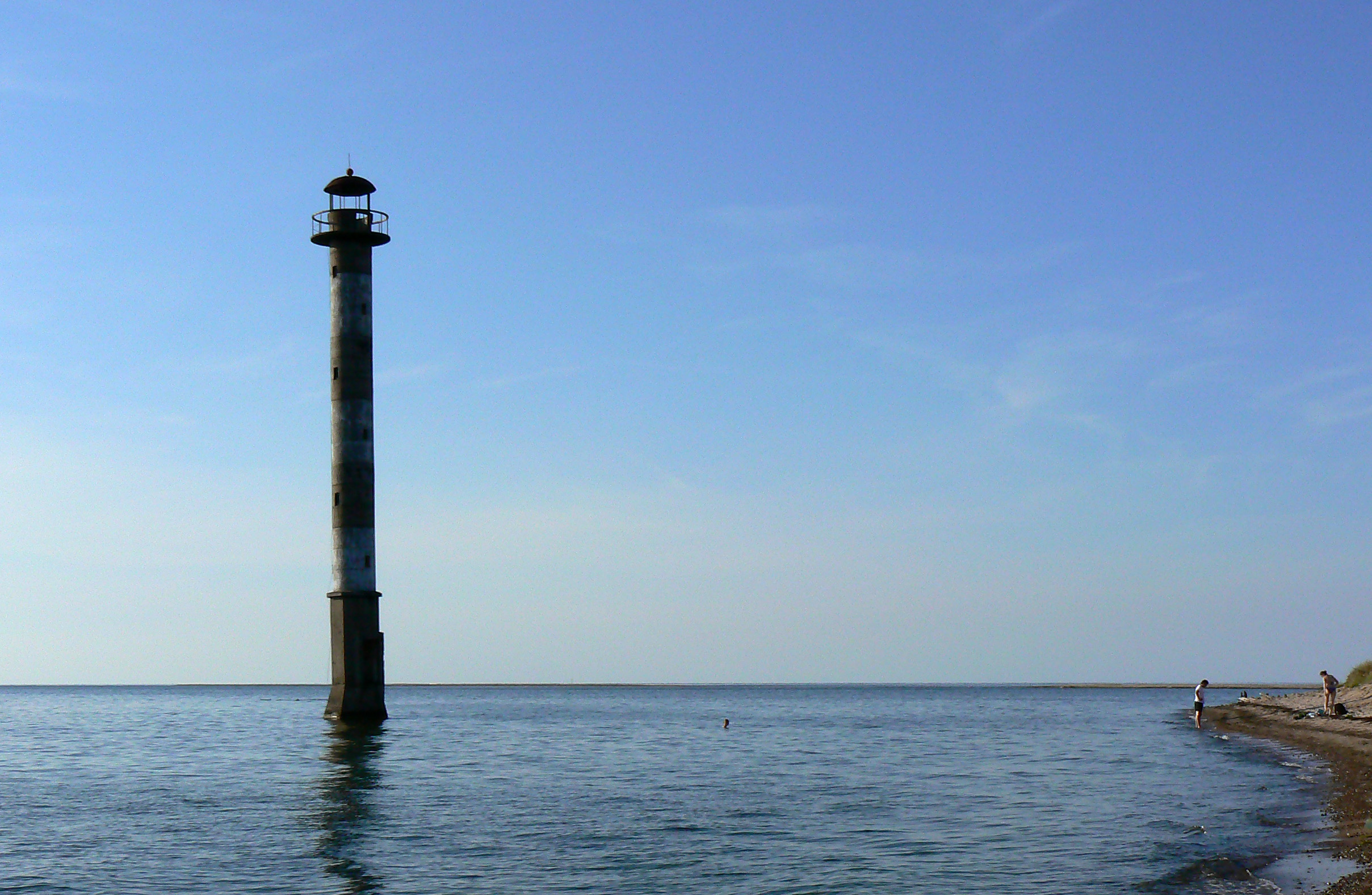 Kiipsaare lighthouse in 2010.